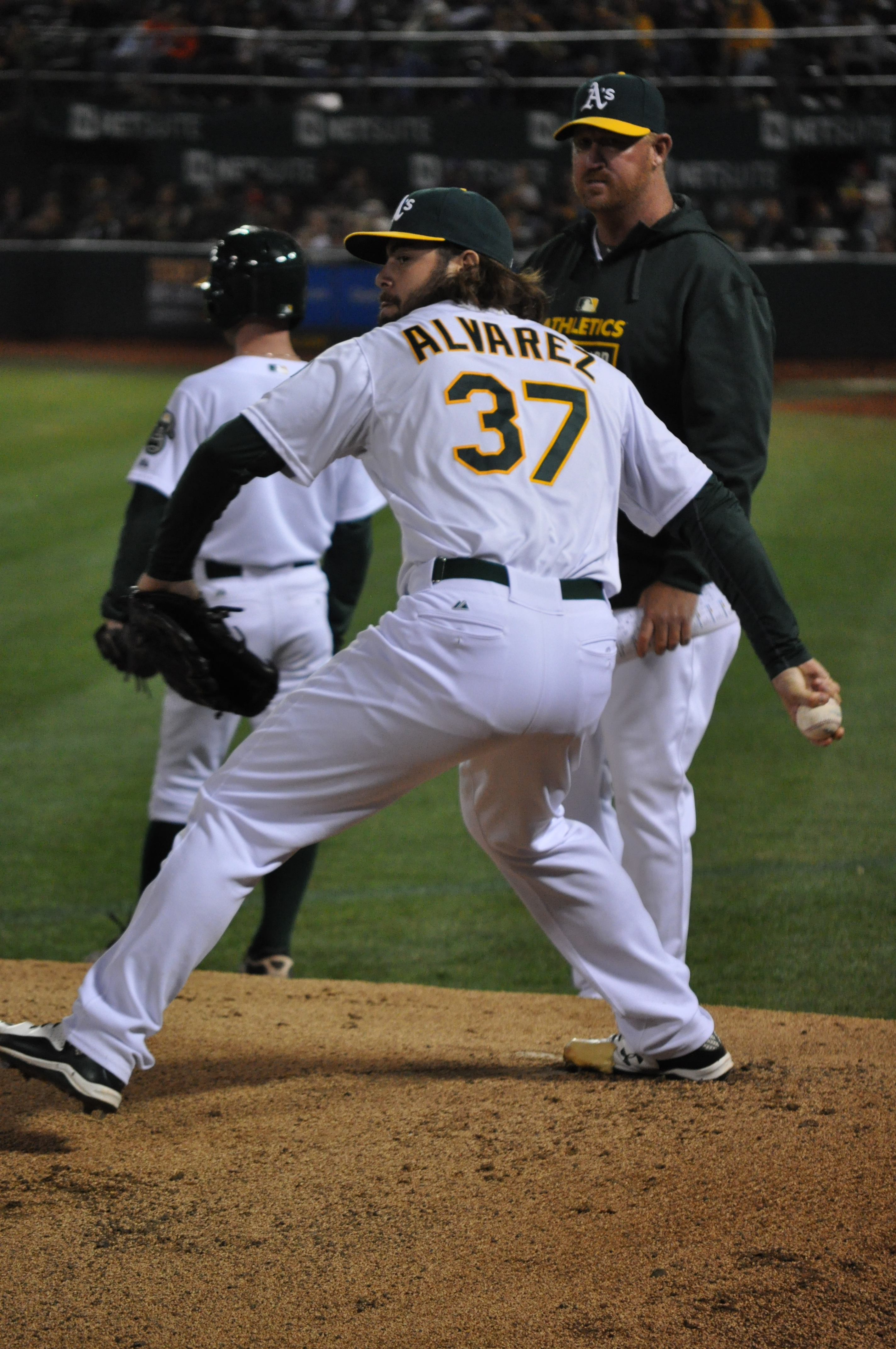 Alvarez readies himself to come in the game, 9-22-15